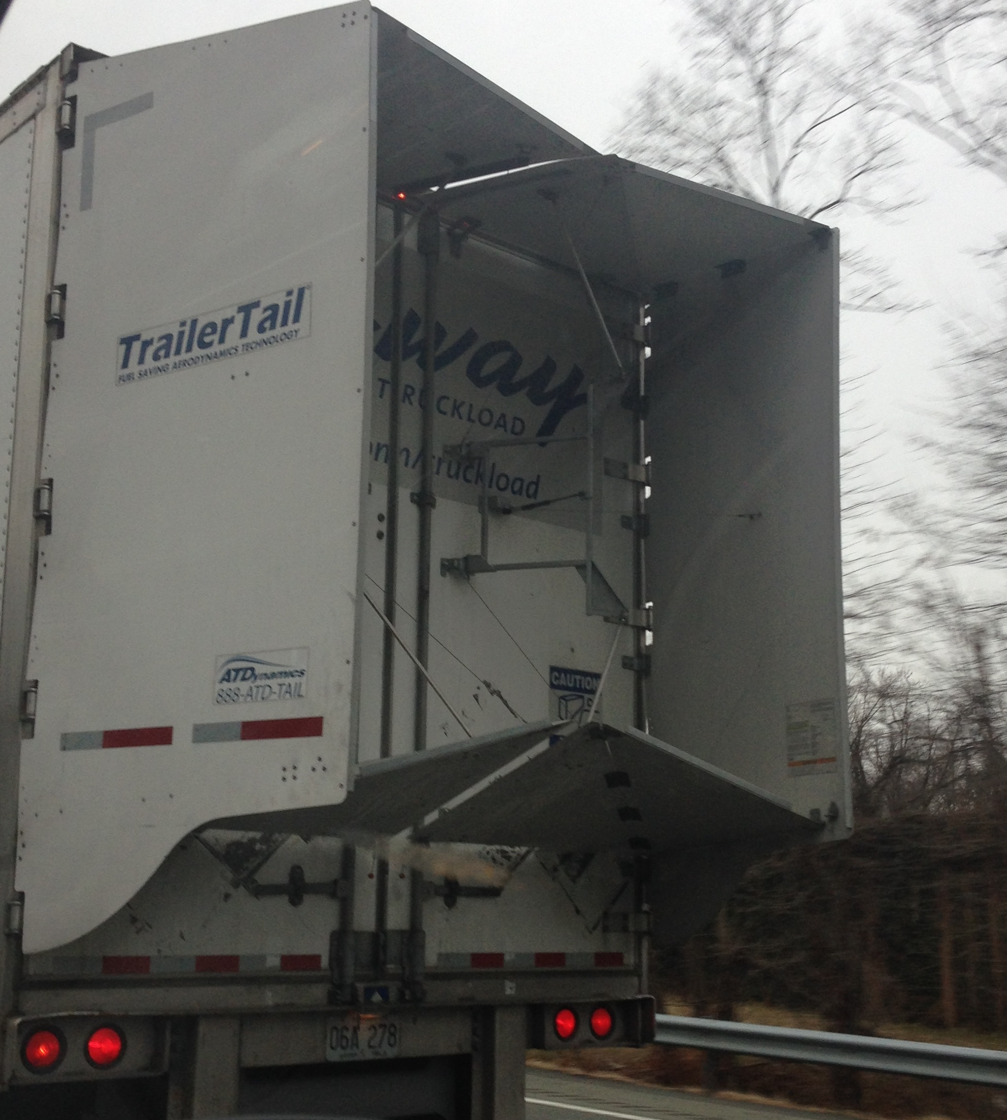 TrailerTail (a rear-drag reduction device) at the rear of a semi-trailer truck